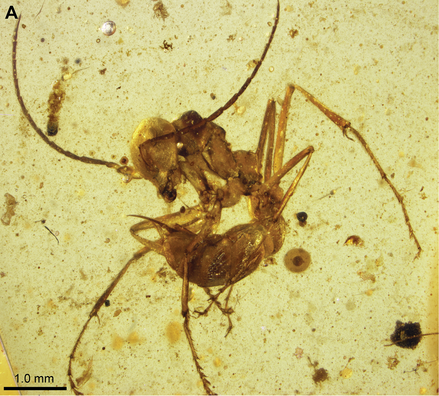 Figure 1. Gerontoformica contegus (syn. Sphecomyrmodes contegus) holotype JZC Bu300A photomicrographs. A. Lateral view of entire specimen.